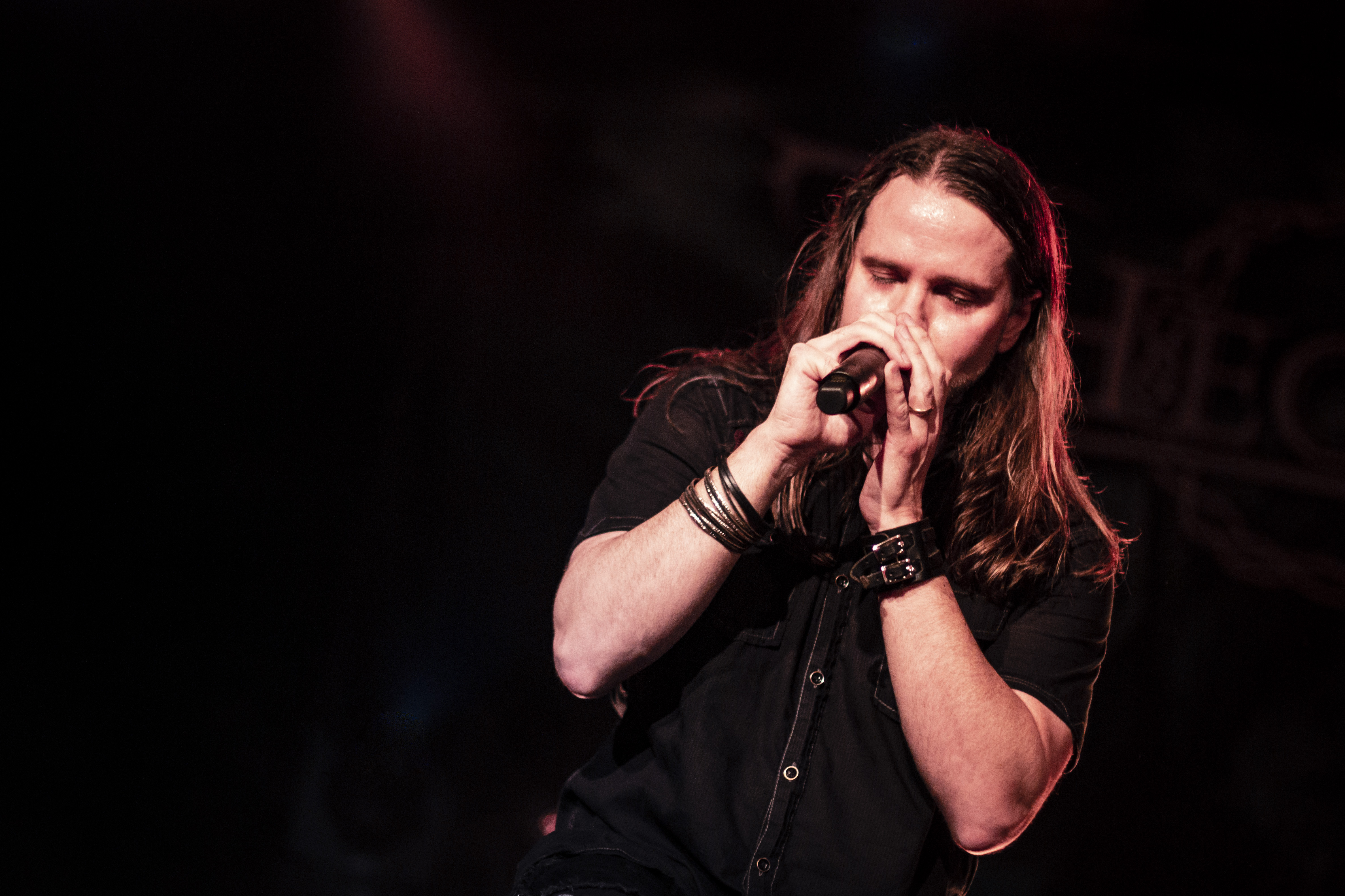 Theocracy in Swiss concert at the Elements of Rock Festival in 2019.